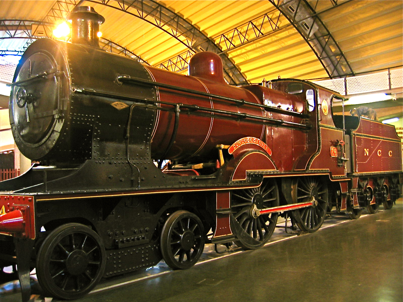 Steam train: Ulster Folk and Transport Museum